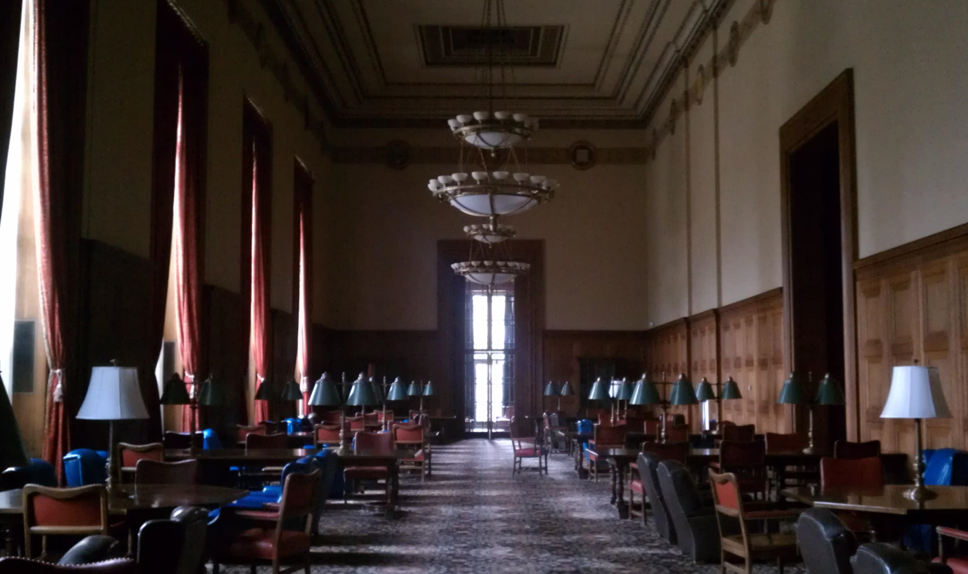 The Reading Room at the Horace H. Rackham Building, at the University of Michigan